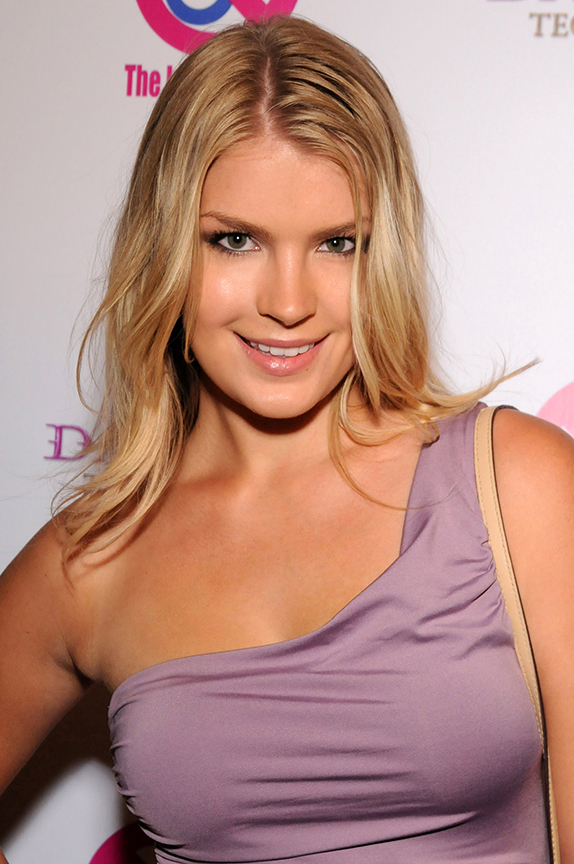 Pia Pakarinen, Los Angeles, California on January 7, 2014 - Photo by Glenn Francis and